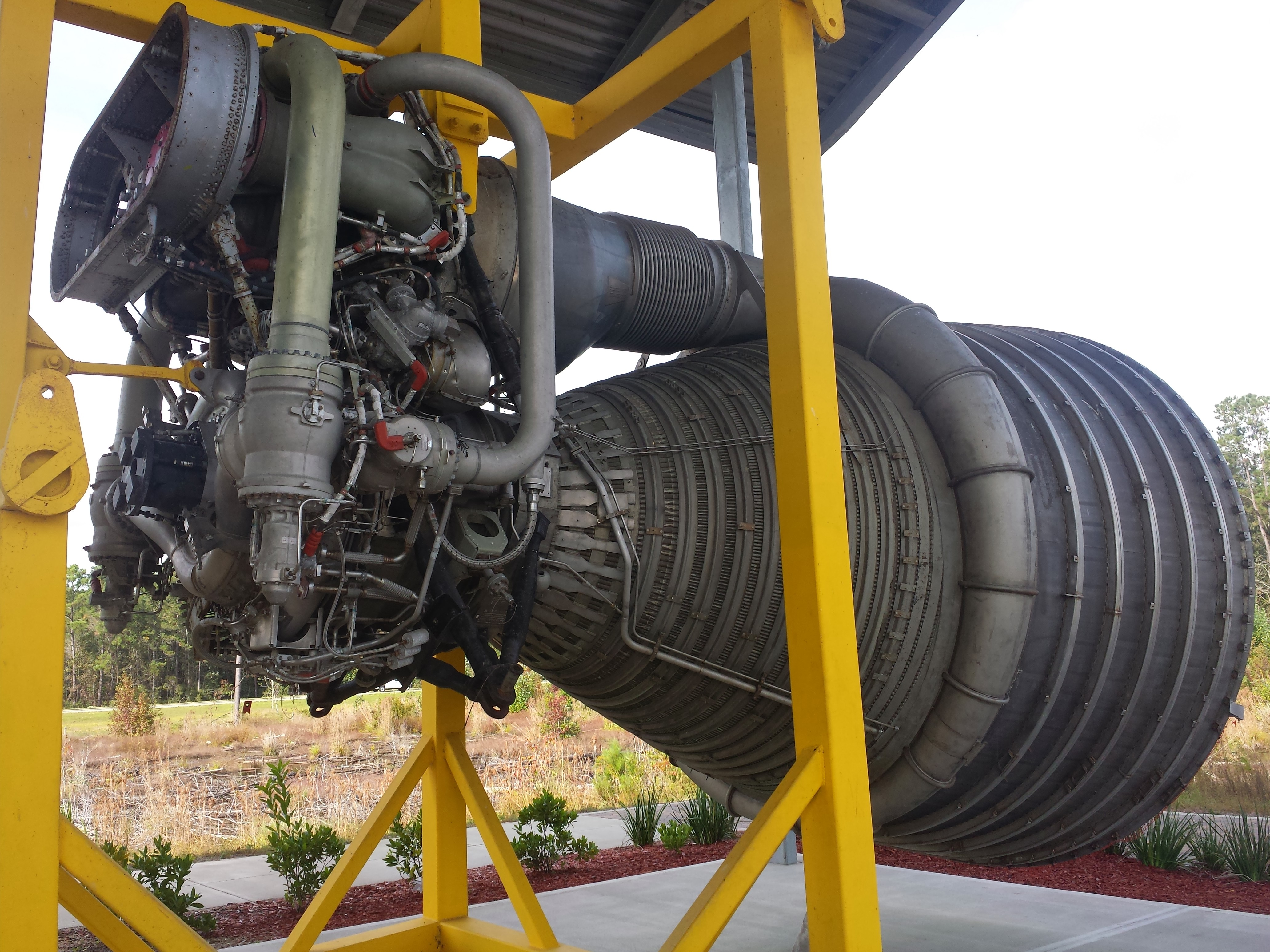 This is an F-1 engine that was never used on a Saturn V rocket. It is on display at INFINITY science center.